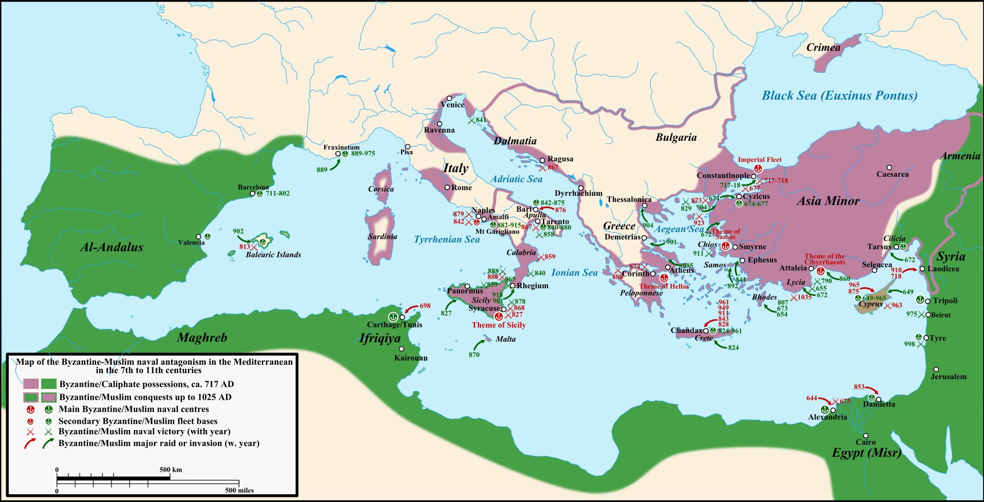 Map depicting the Byzantine-Muslim naval conflicts from its beginnings in the mid-7th century to ca. 1050.